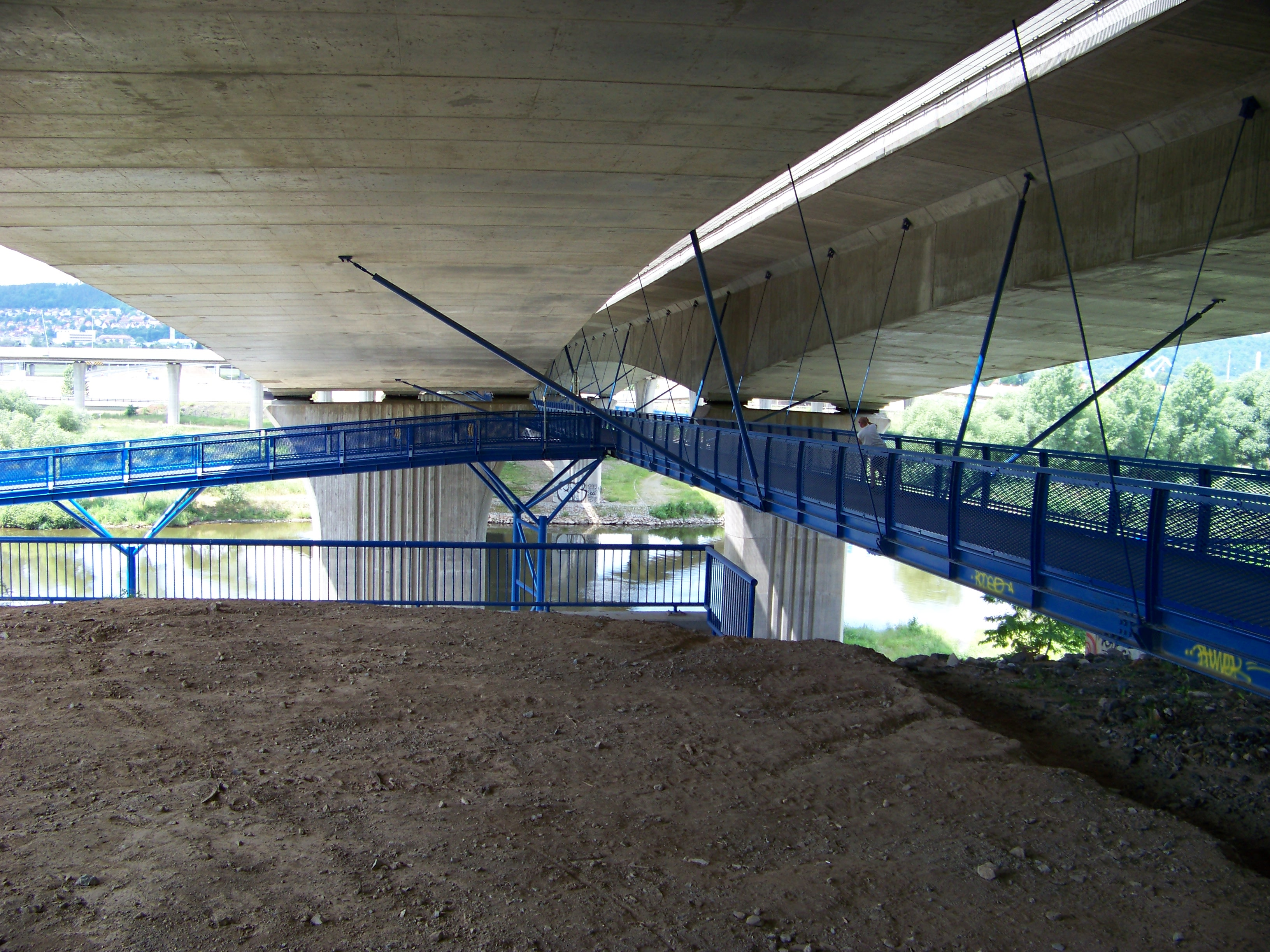 Prague-Komořany, Czech Republic. Radotínský most.